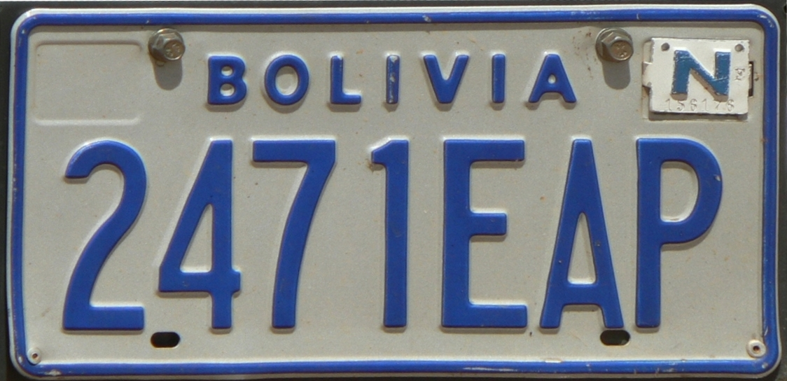 License plate of Bolivia. "N" stands for "Departamento Pando" (seen 2014).